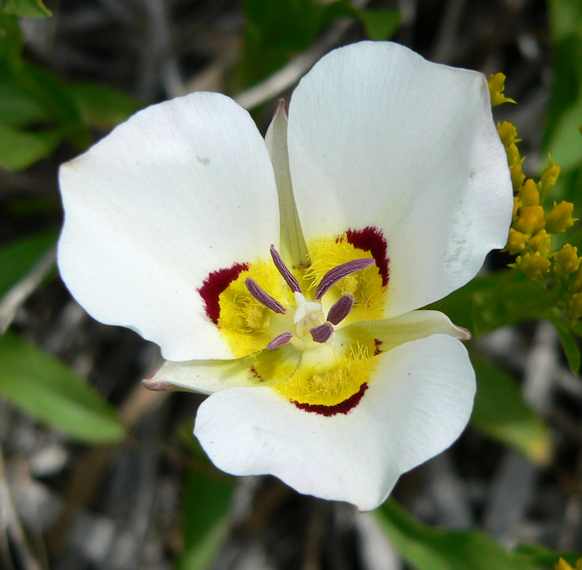 Calochortus nuttallii alongside the South Loop trail in the big avalanche area, Spring Mountains, southern Nevada (elev. about 2500 m); this could also be C. bruneaunis, which is also in the area, but which is said to have more of a purple ring around the nectary, and a greenish rather than purplish strip on the back of the petals